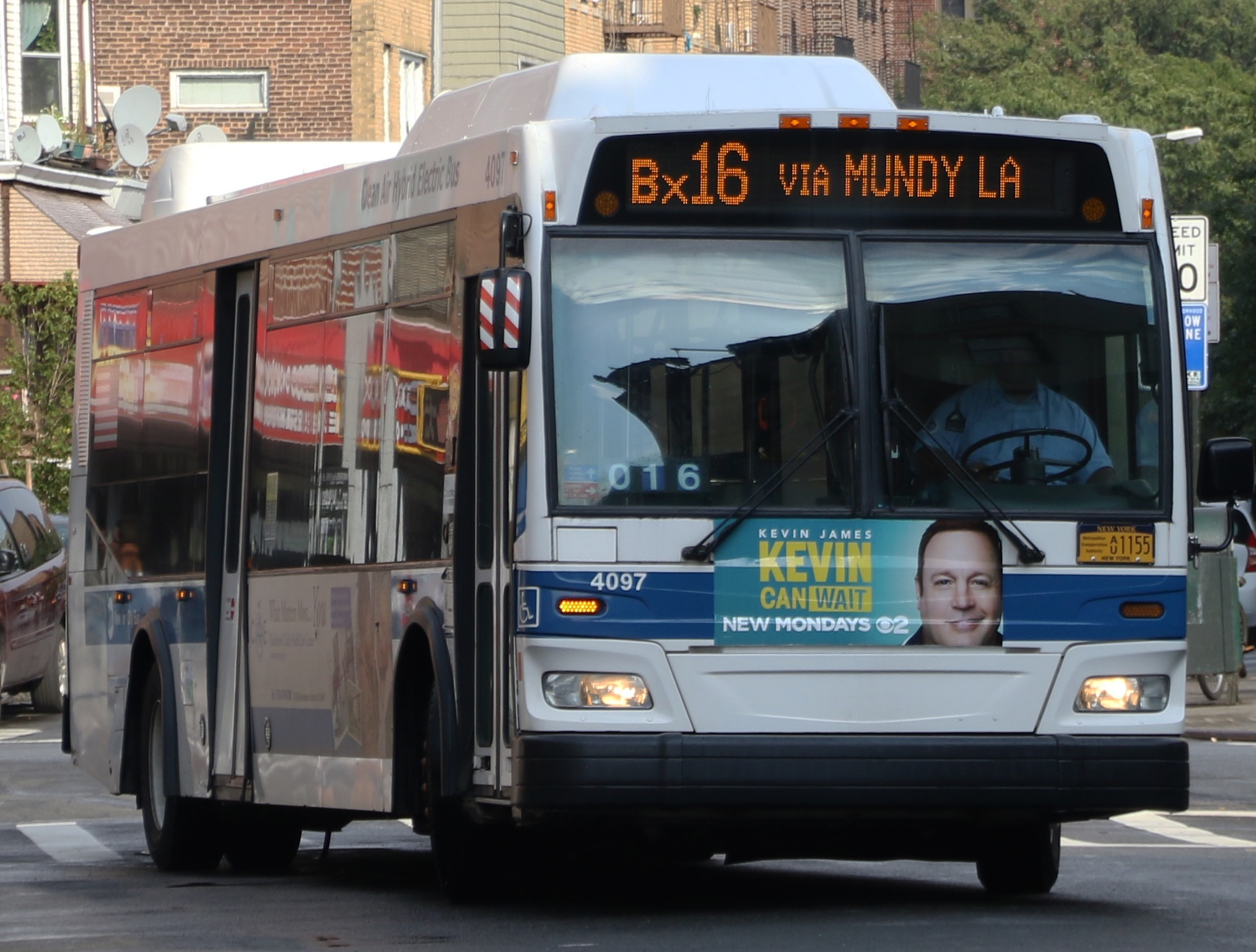 MTA NYC Bus Orion 7 (07.501 2nd generation) 4097 Bx16 bus turning onto 206th St from Bainbridge Ave.